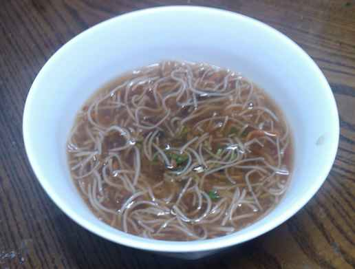 The rice noodles of Luodong, Yilan